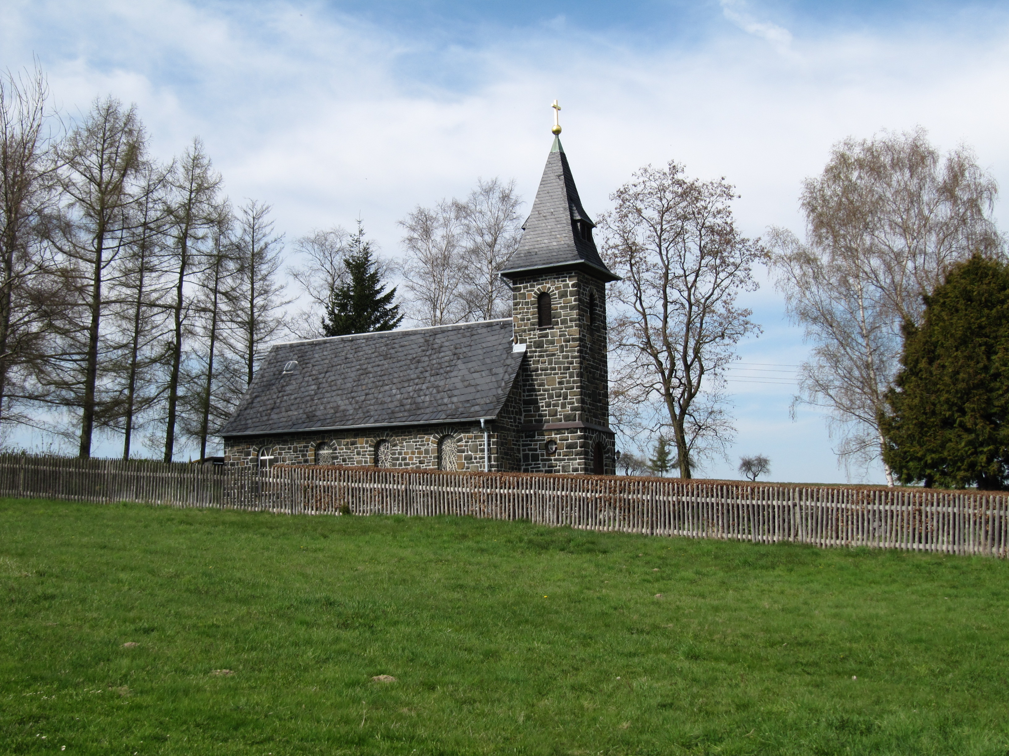 The Emmaus-Chapel in Raila, Germany